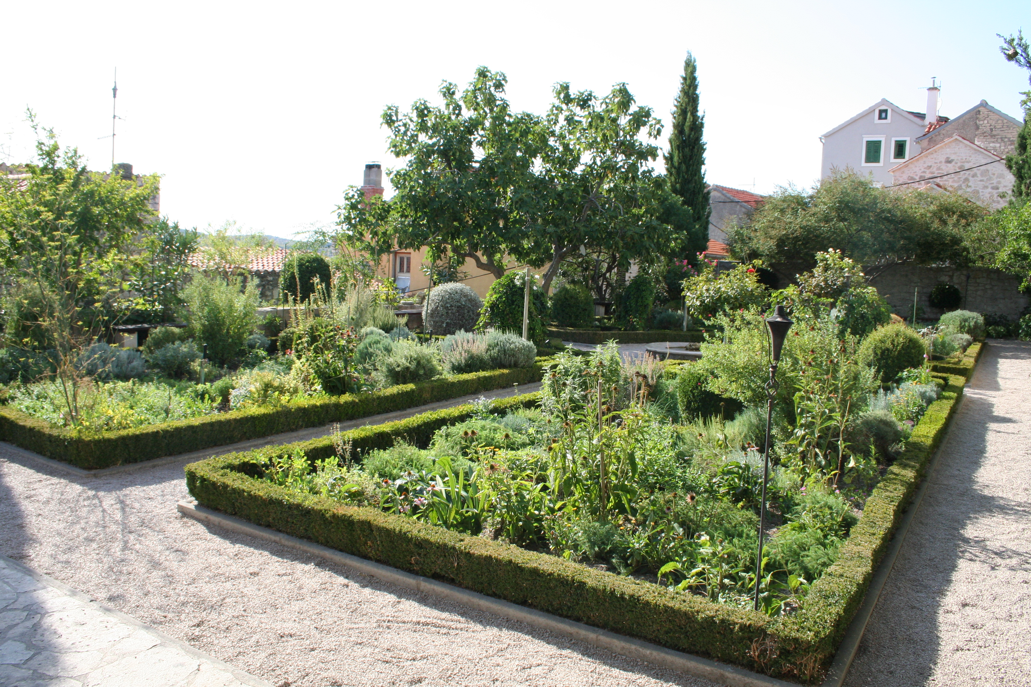 The Medieval Mediterranean Garden of St. Lawrence's Monastery in Šibenik.